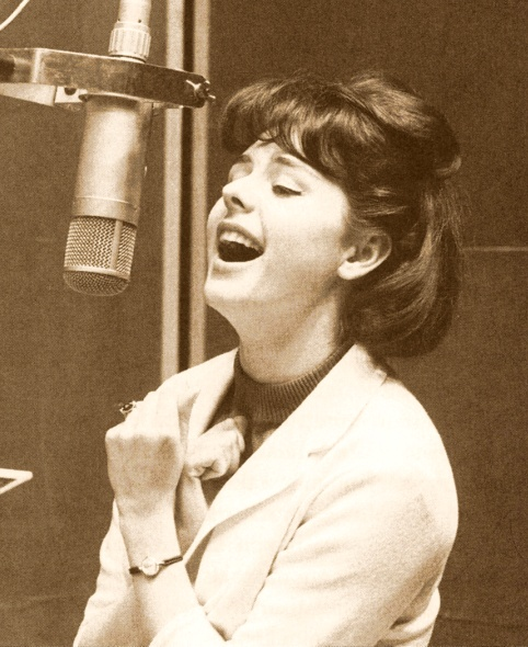 Pirkko Mannola